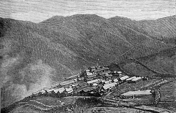 An engraving from a photograph showing the fort at Gnatong during the Anglo-Tibetan war of 1888